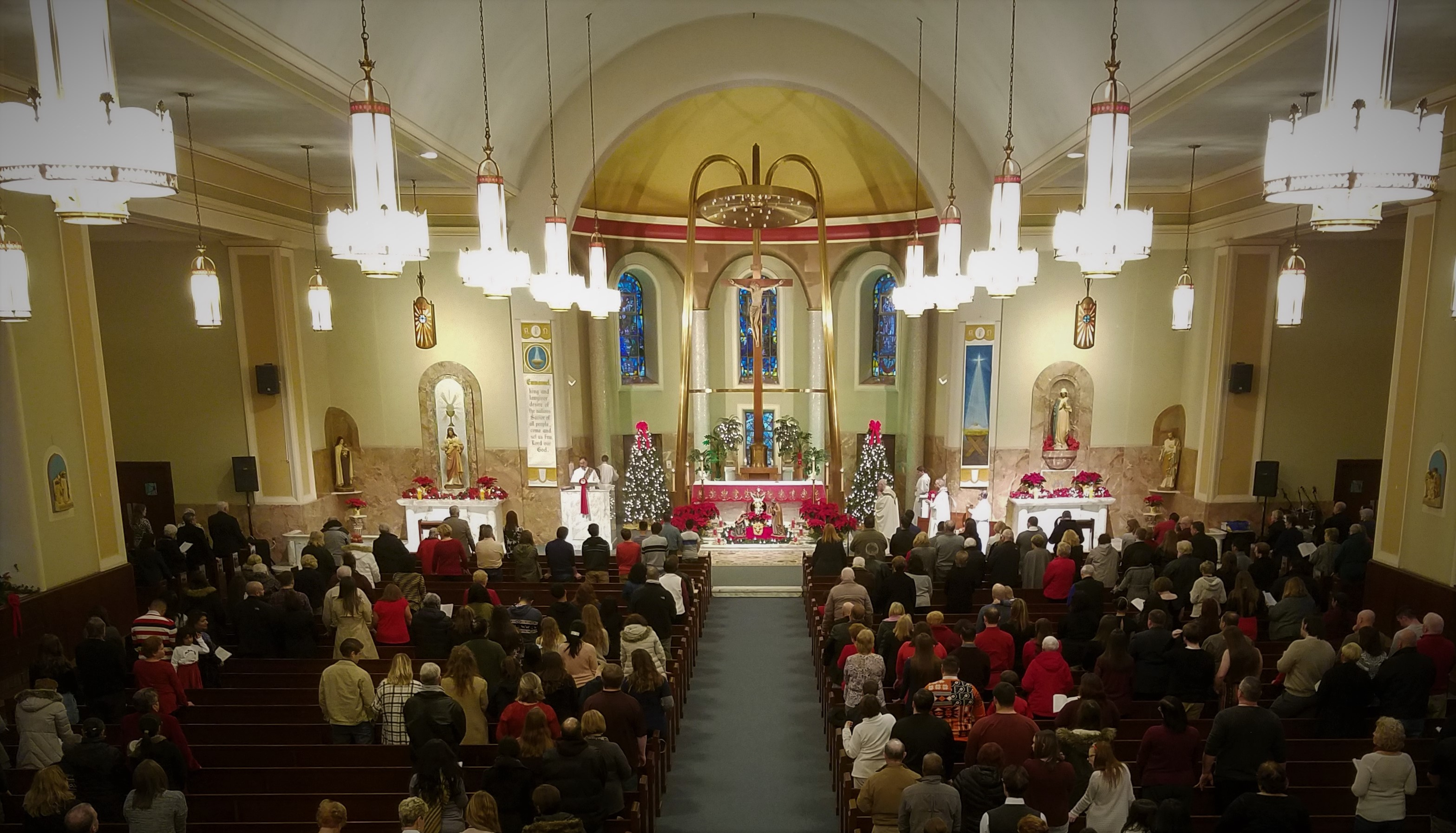 Picture of Christmas Eve Mass 2017 at St. William Church in Philadelphia